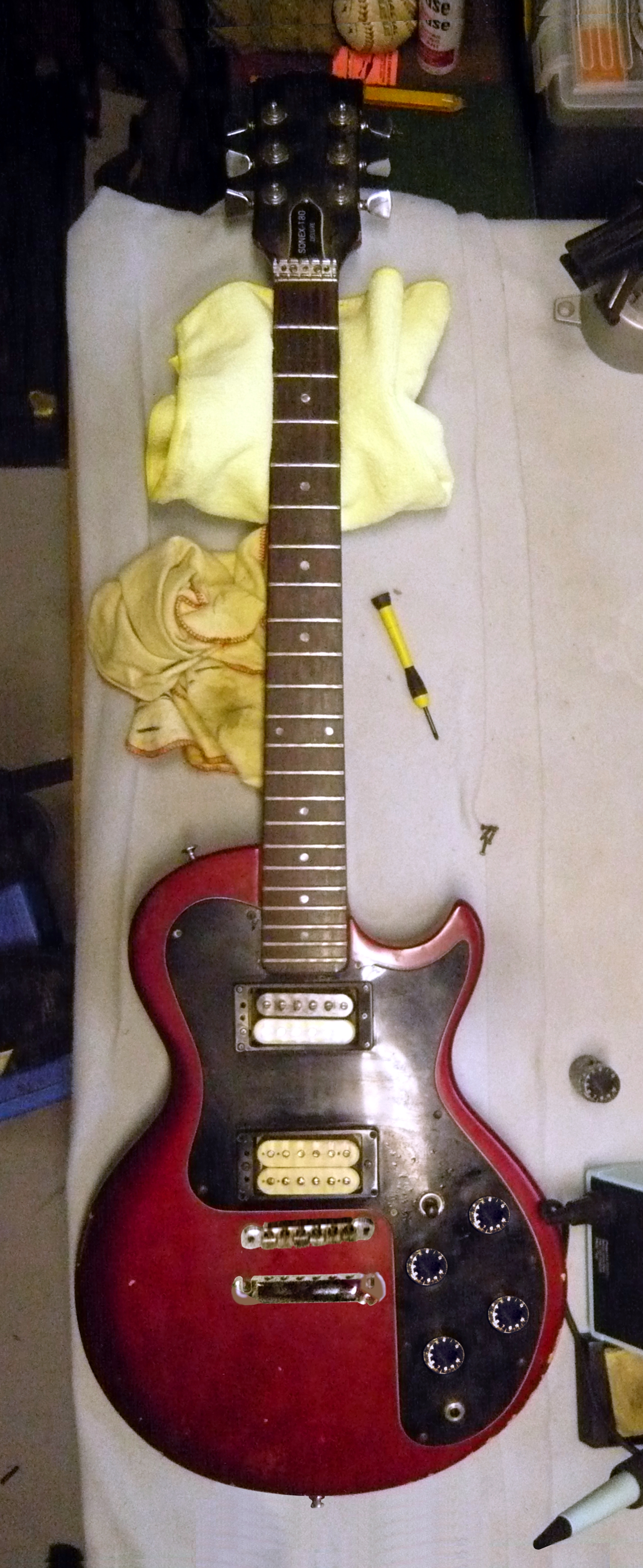 Gibson Sonex 180 Deluxe (under repairing) Note: knobs, PU covers, bridge & tailpiece are temporally detached to repair. Also lockable nut may be latter addition.